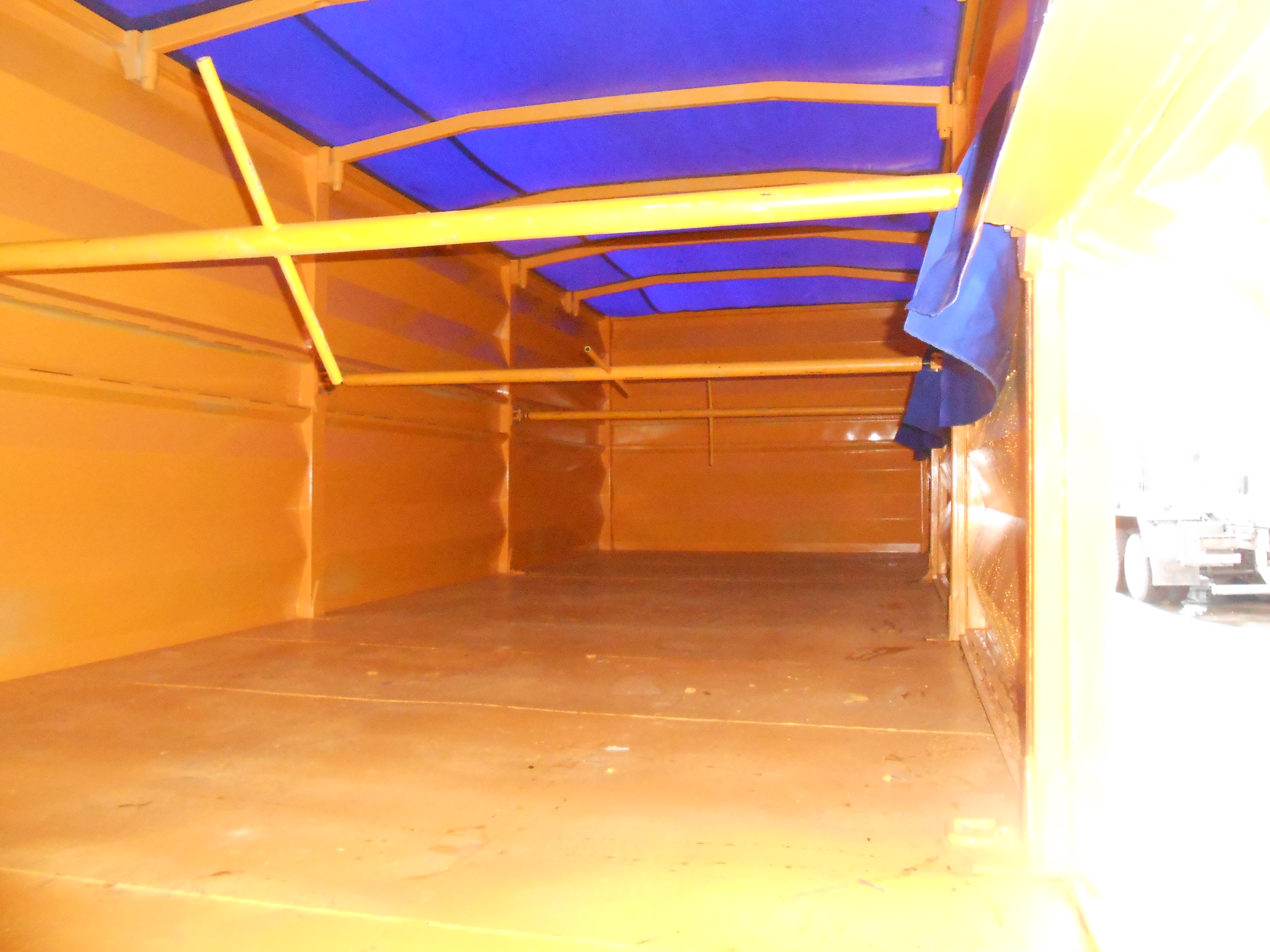 Вместительный кузов самосвала